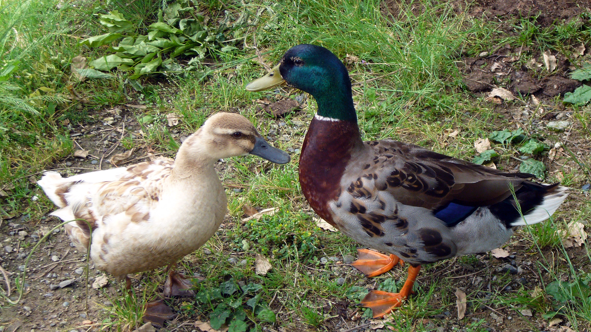 Mallard in Azuchi, Shiga, Japan